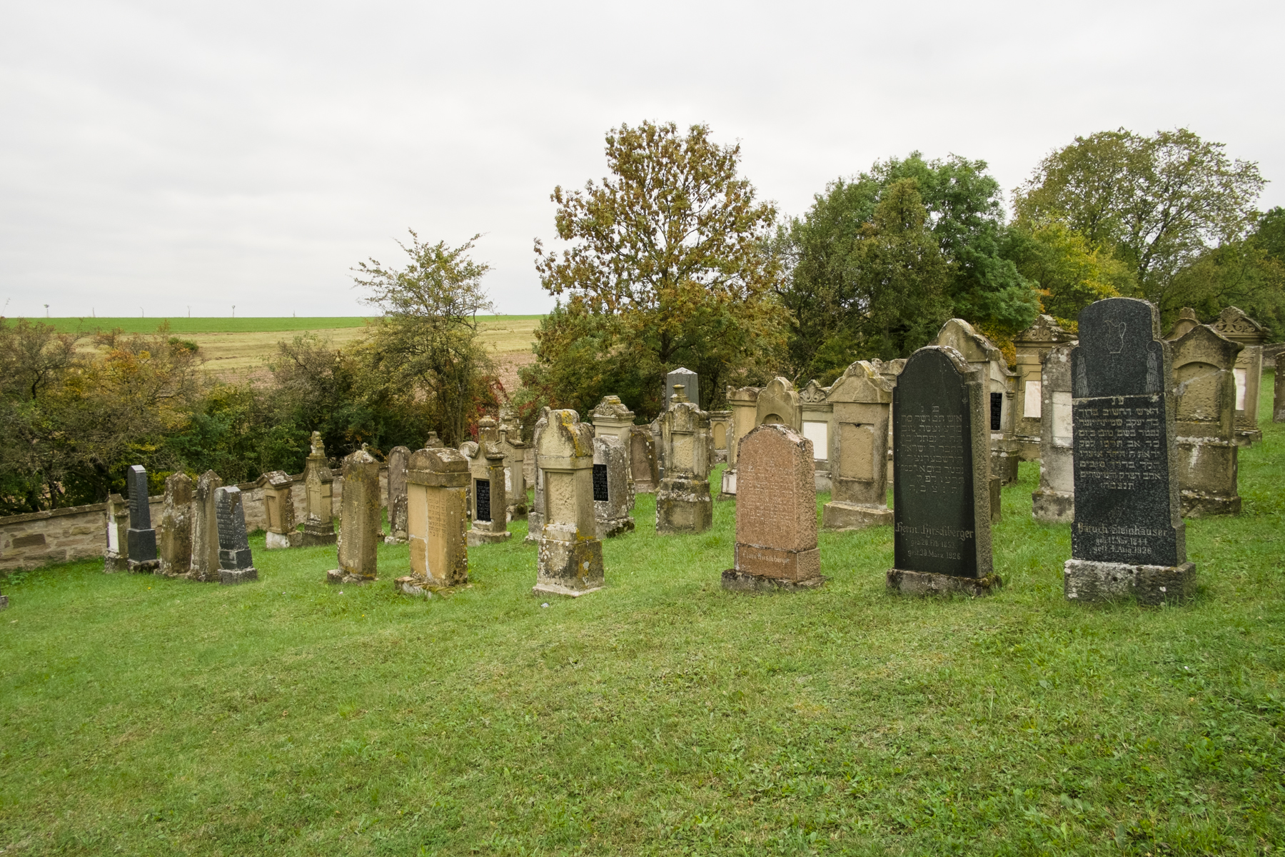 Jewish cemetary Oberlauringen, county Schweinfurt, Bavaria, Germany